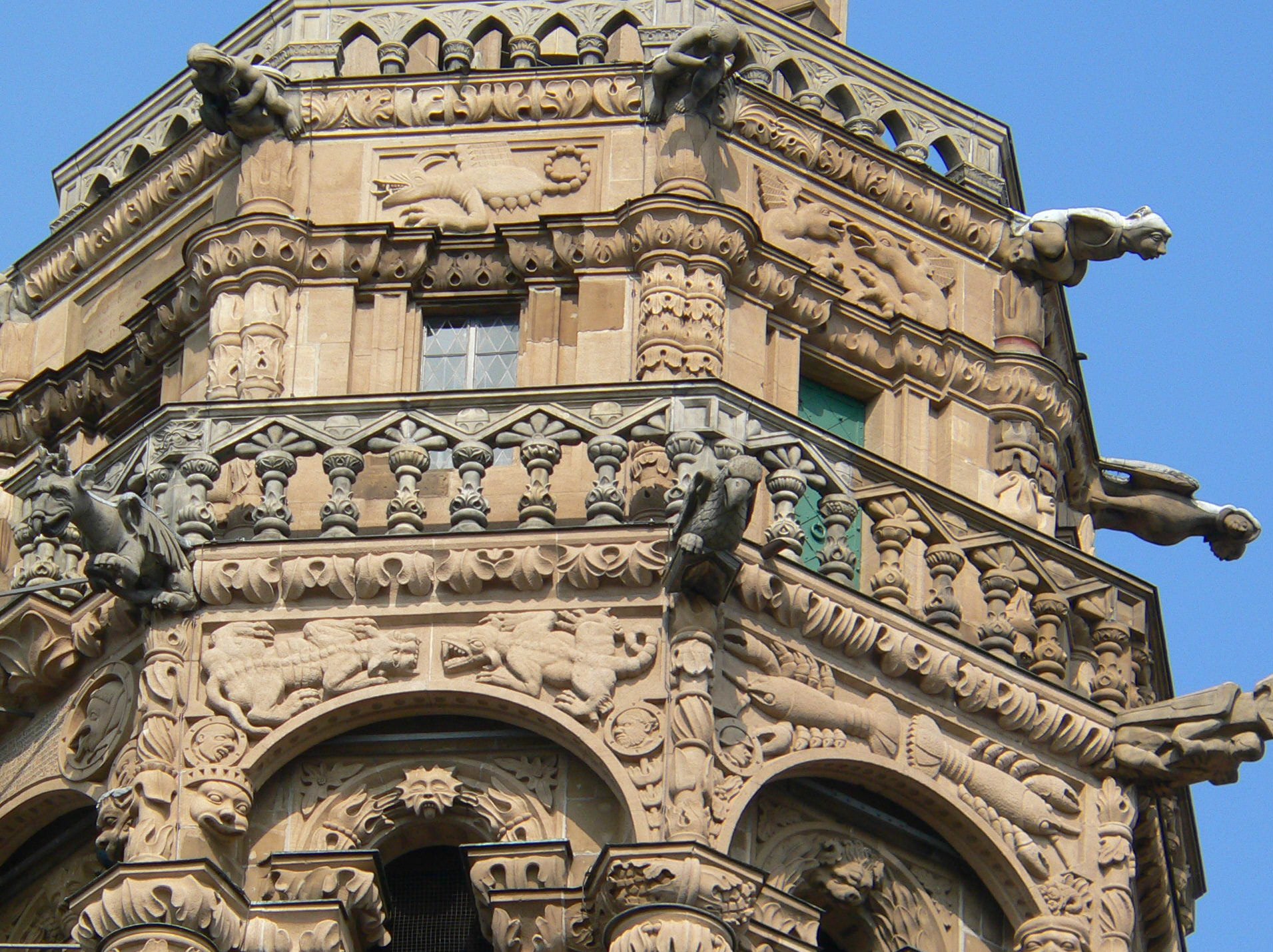 Ornaments on the octagon of the Church Kilianskirche of Heilbronn - Germany, 2007, by J. Köhler